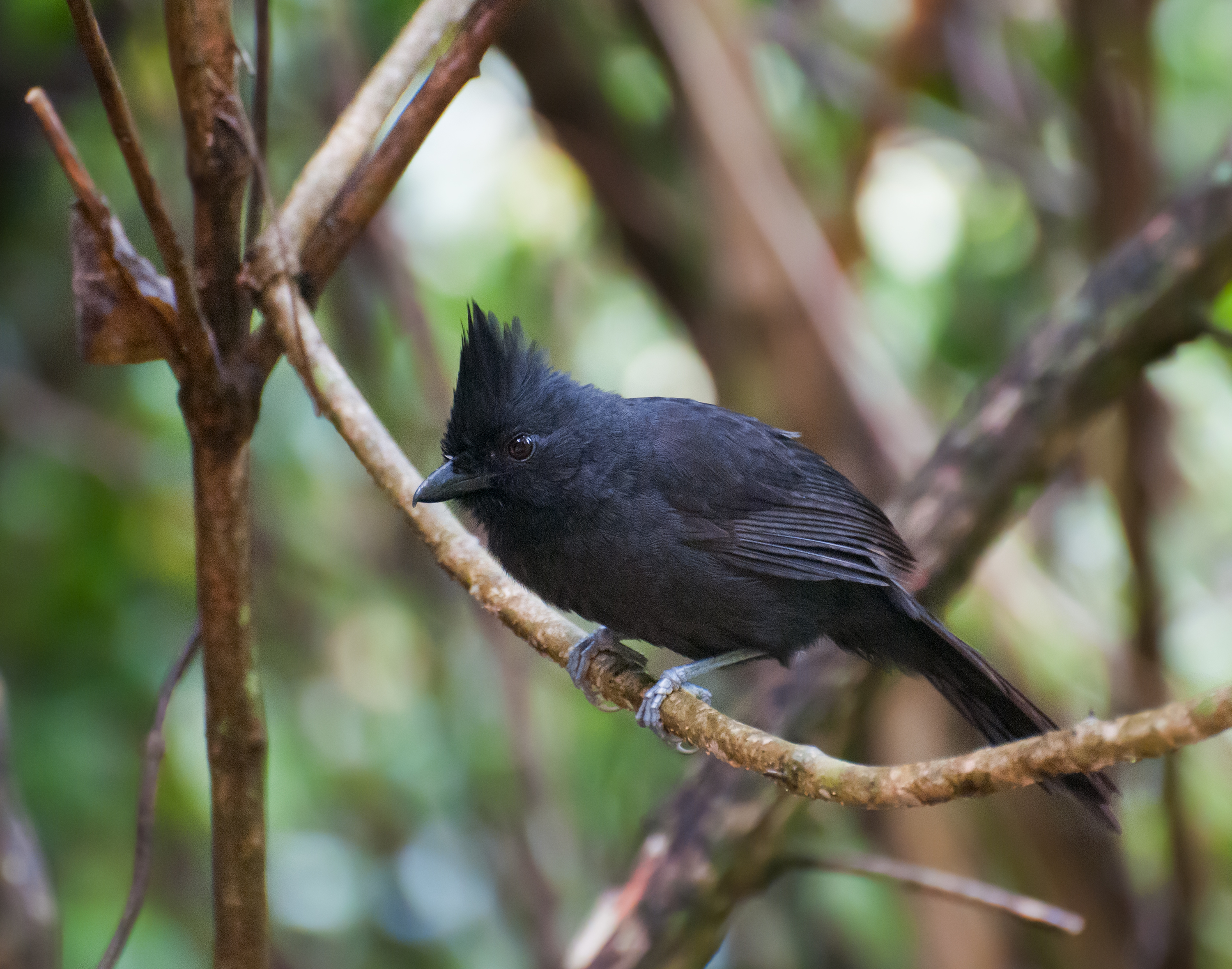 A male Tufted Antshrike in Piraju, Sao Paulo, Brazil